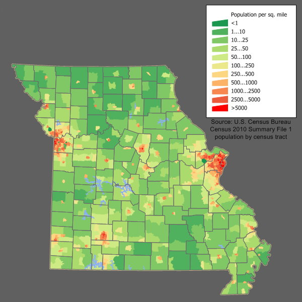 Population map of Missouri, updated with the 2010 census data